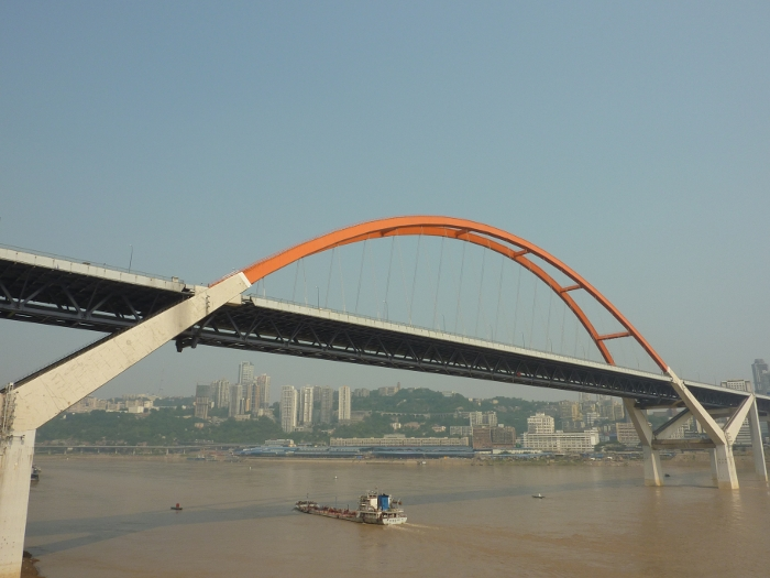 The Caiyuanba Bridge in Chongqing City, China